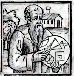 A close up of Apollonius of Perga from the 1537 edition of his works.